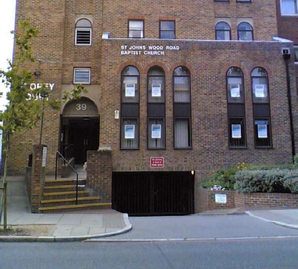 St John's Wood Road Baptist Church new building